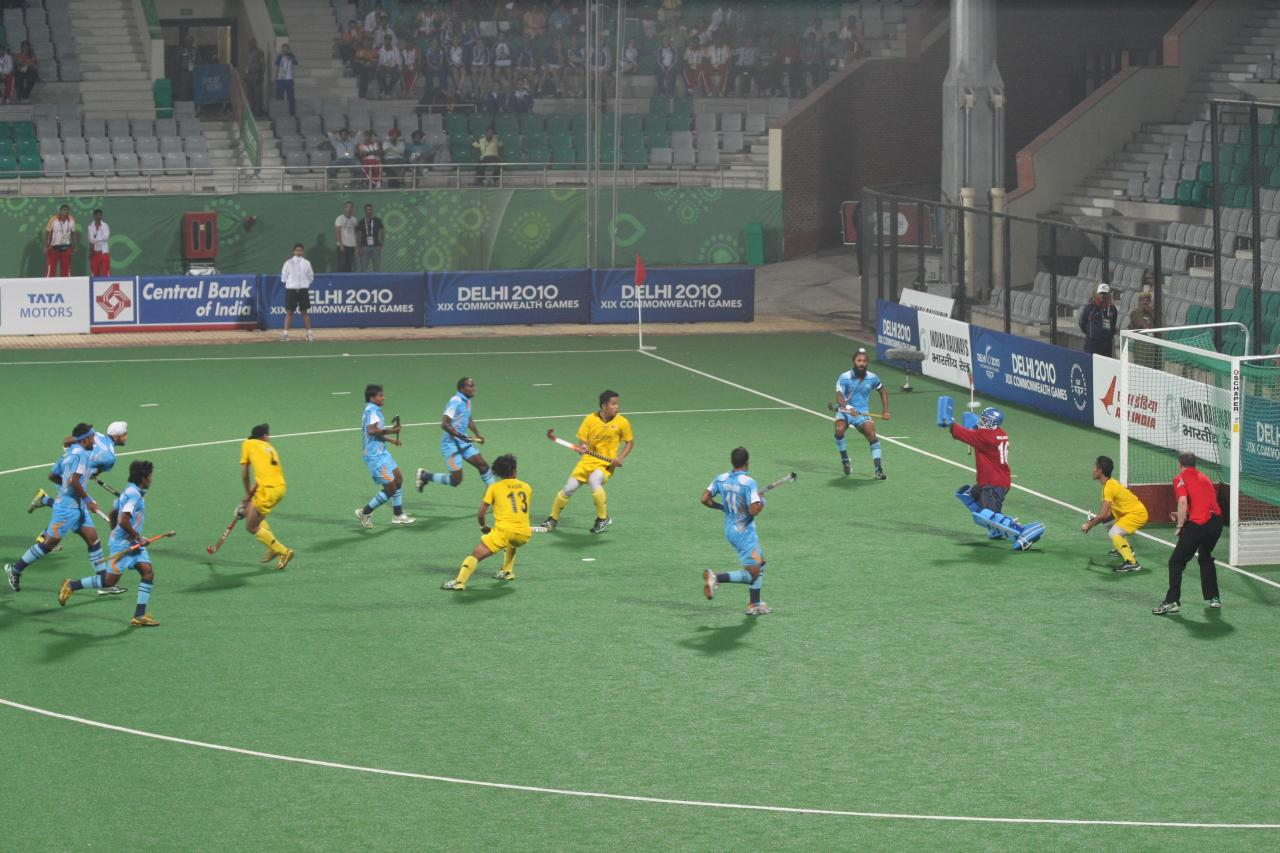 India vs Malaysia Hockey Match CWG 2010, Delhi Indian drag flicker, Sandeep Singh, scores the second equalizer with a corner intiated by captain, Rajpal Singh, in a CWG hockey match against Malaysia (notice the ball flying past the goalkeepers head). India eventually won the nail-biter, with a vociferous crowd backing the team at the Major Dhyan Chand Natioanl Stadium, 3-2 and went on to claim the Silver medal in the games.